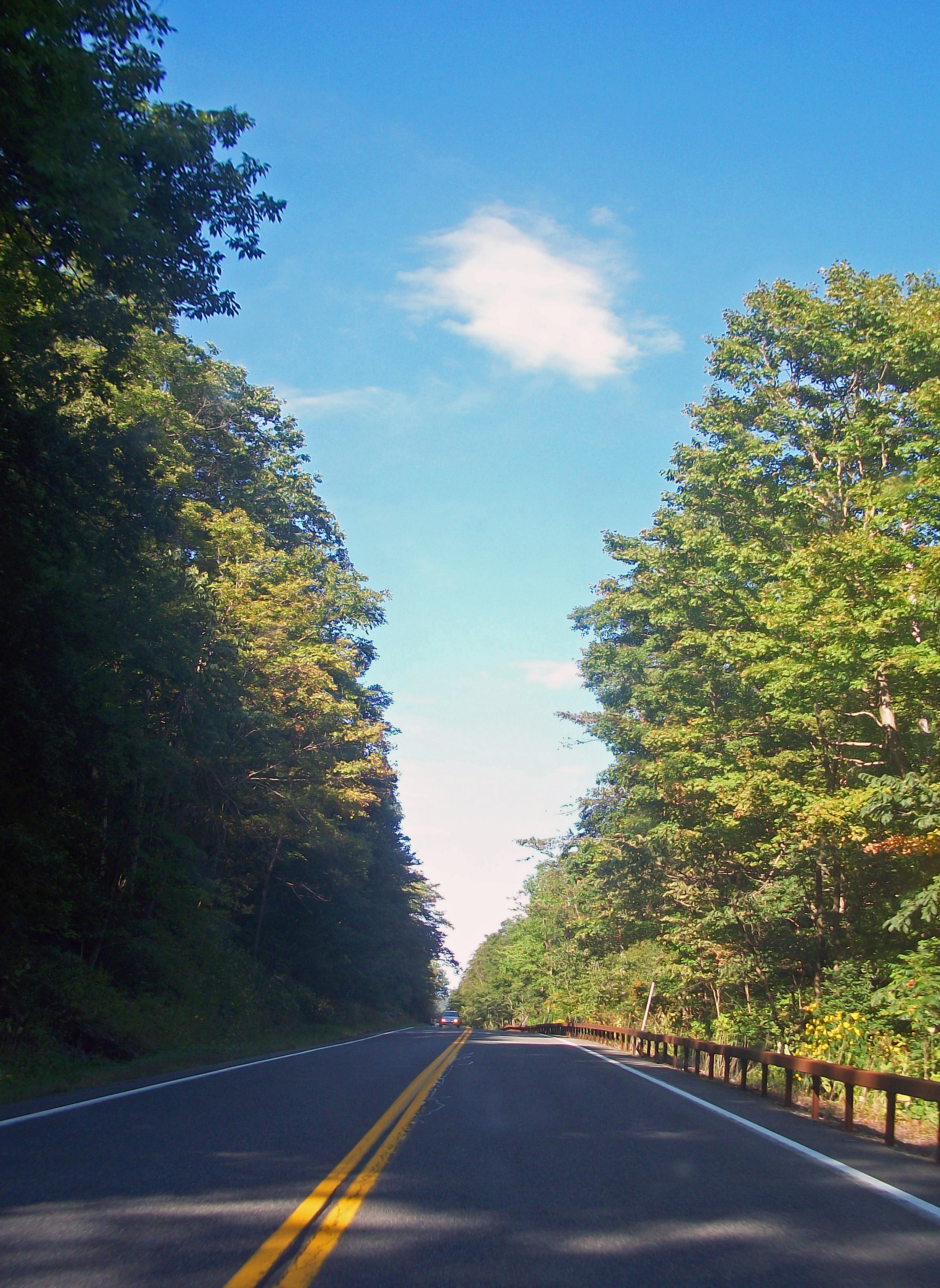 Looking north along NY 42 into Deep Notch, Lexington, NY, USA